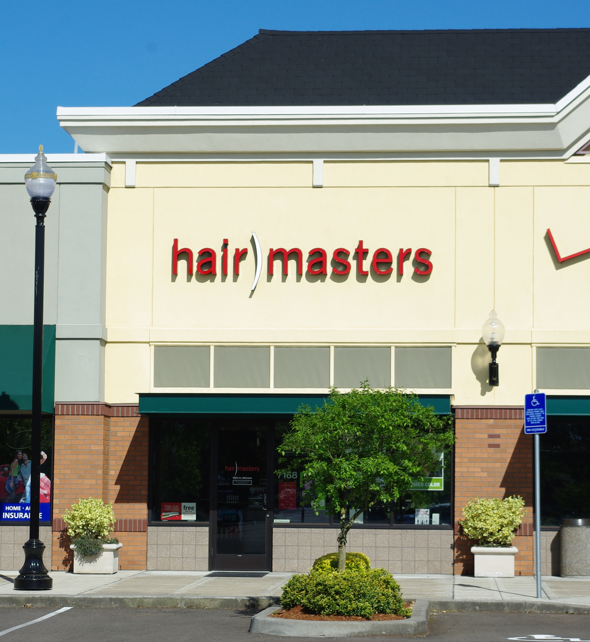 Hair Masters at Crossroads at Orenco Station in Hillsboro, Oregon.